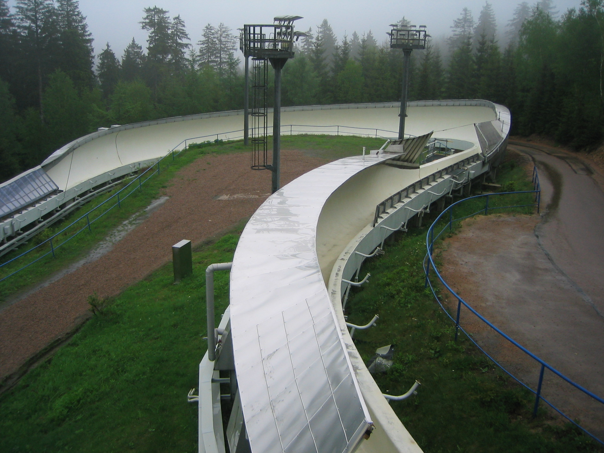 Bobsleigh track in Altenberg/Germany